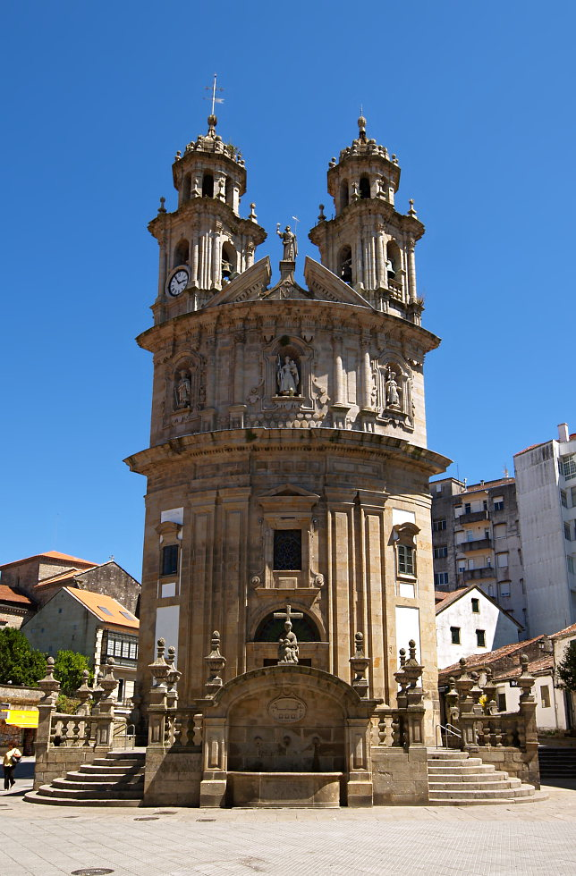 Pontevedra, Capela da Virxe Peregrina